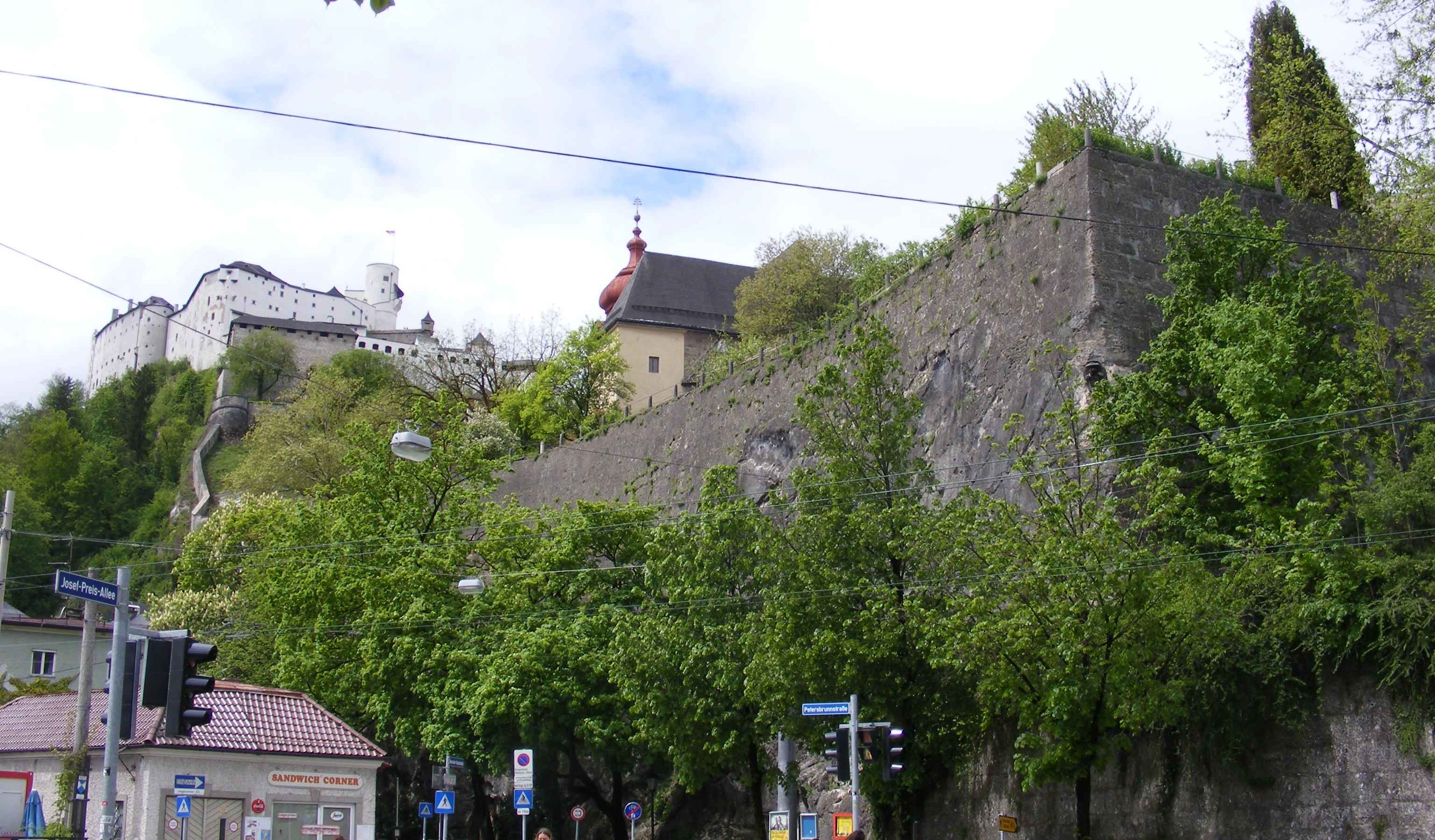 Erentrude entrenchment (named after Saint Erentrude), city of Salzburg, Austria; built in 1622, former part of a fortification